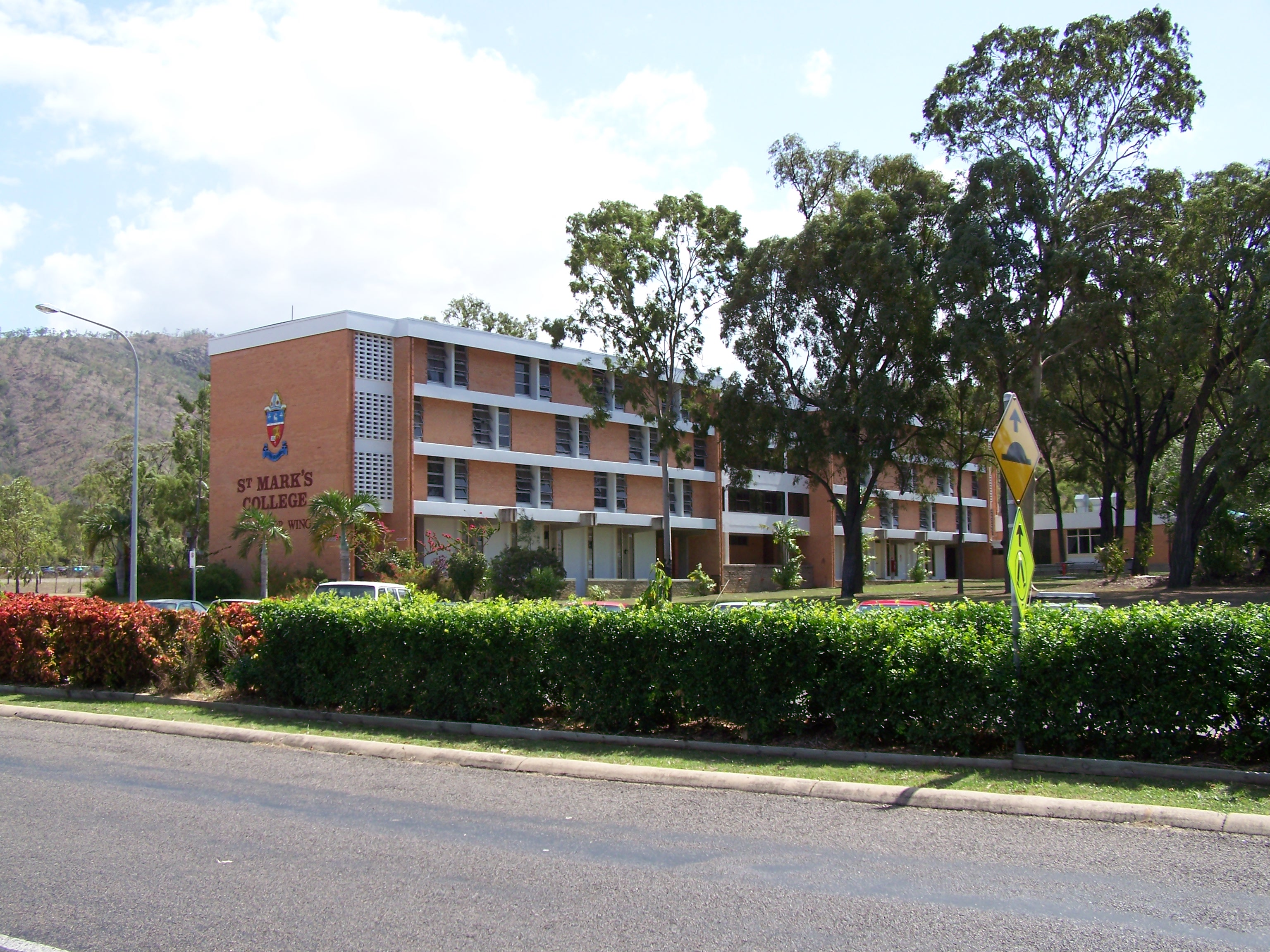 View of JCU St Mark's College